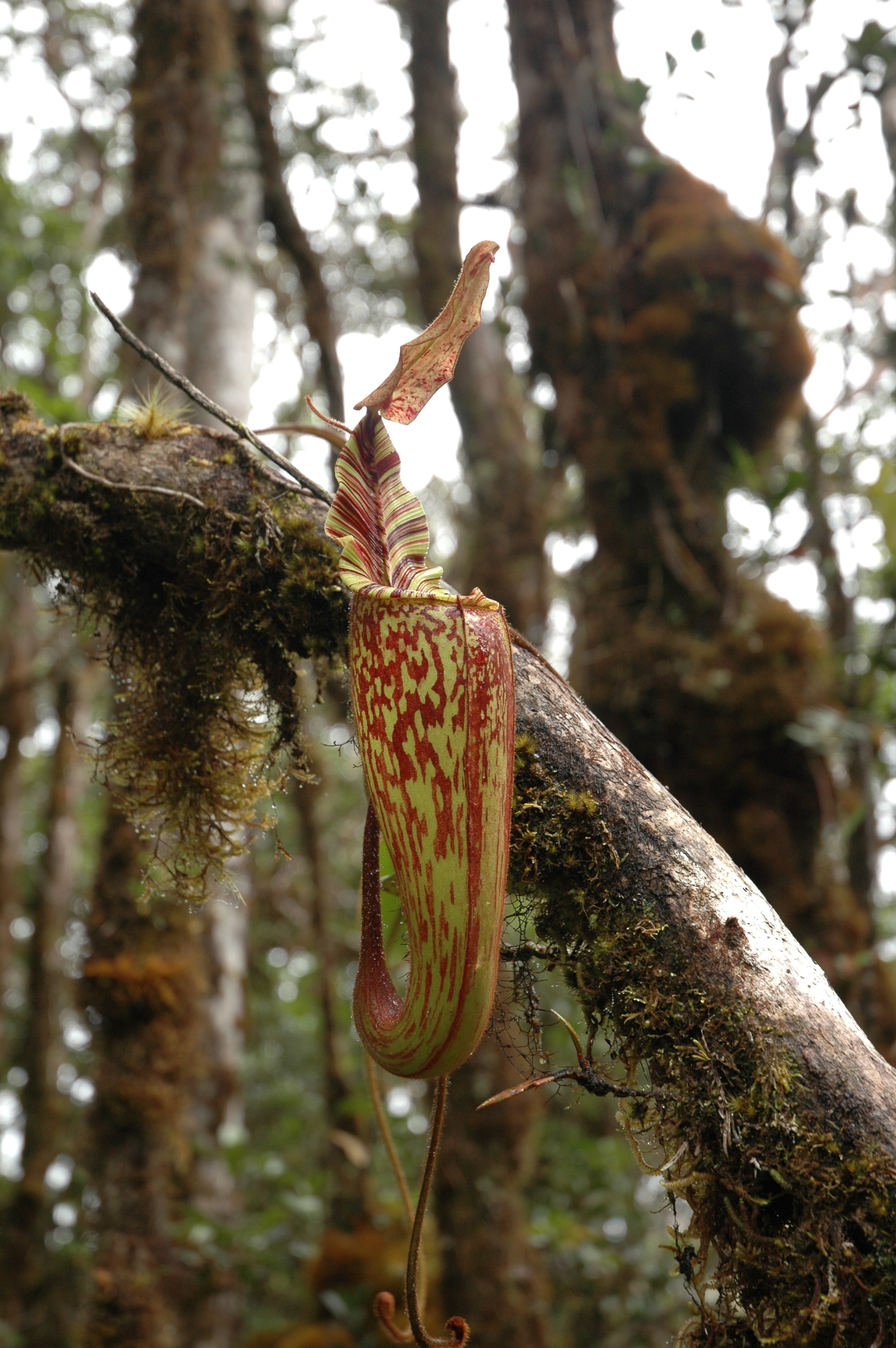 Nepenthes hurreliana Gunung Murud by Jeremiah Harris